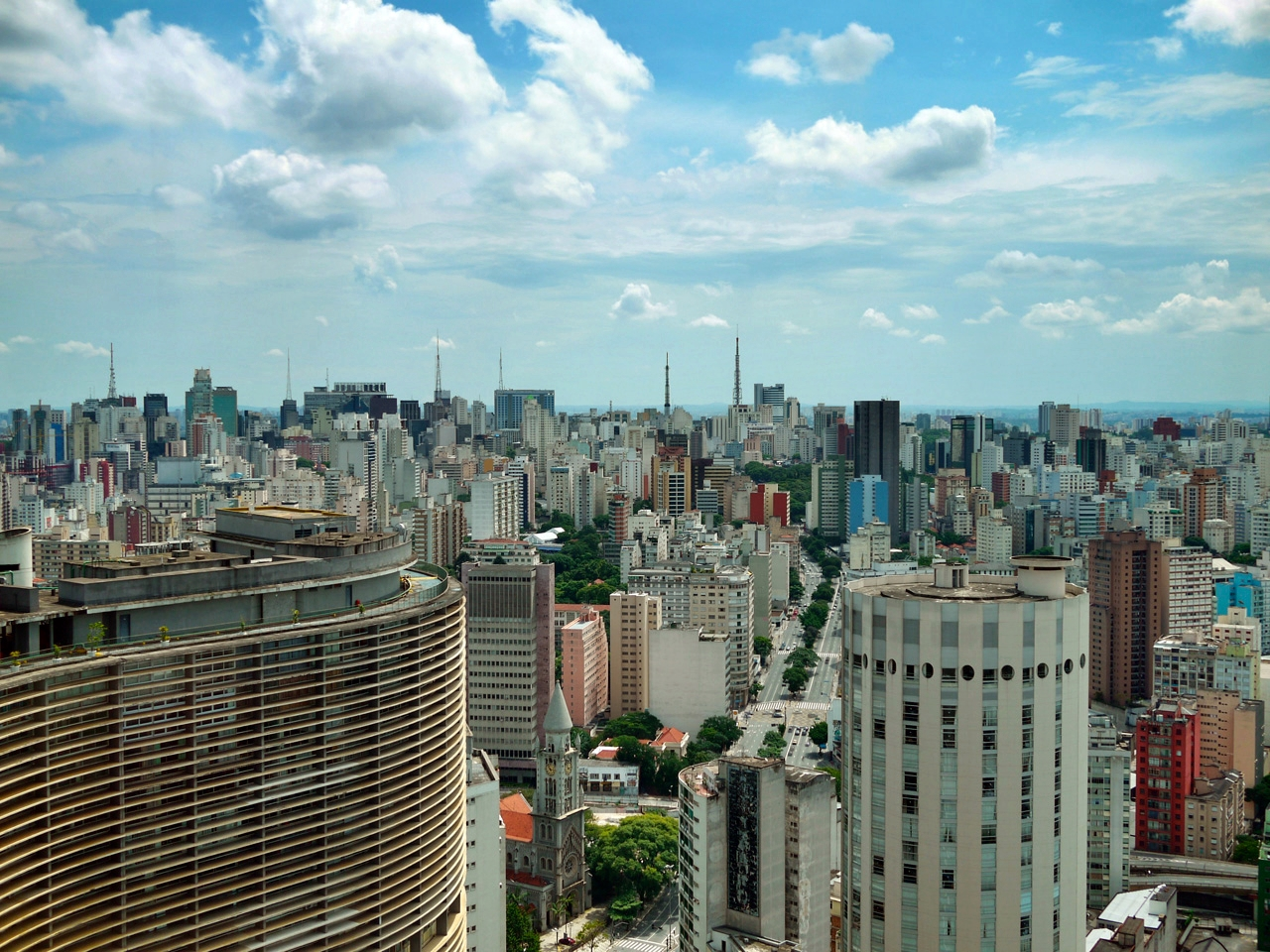 Favela São Remo, São Paulo.